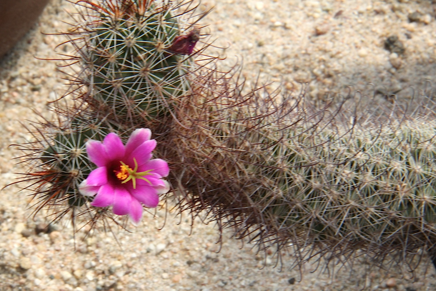 Mammillaria hutchisoniana ssp. hutchisoniana